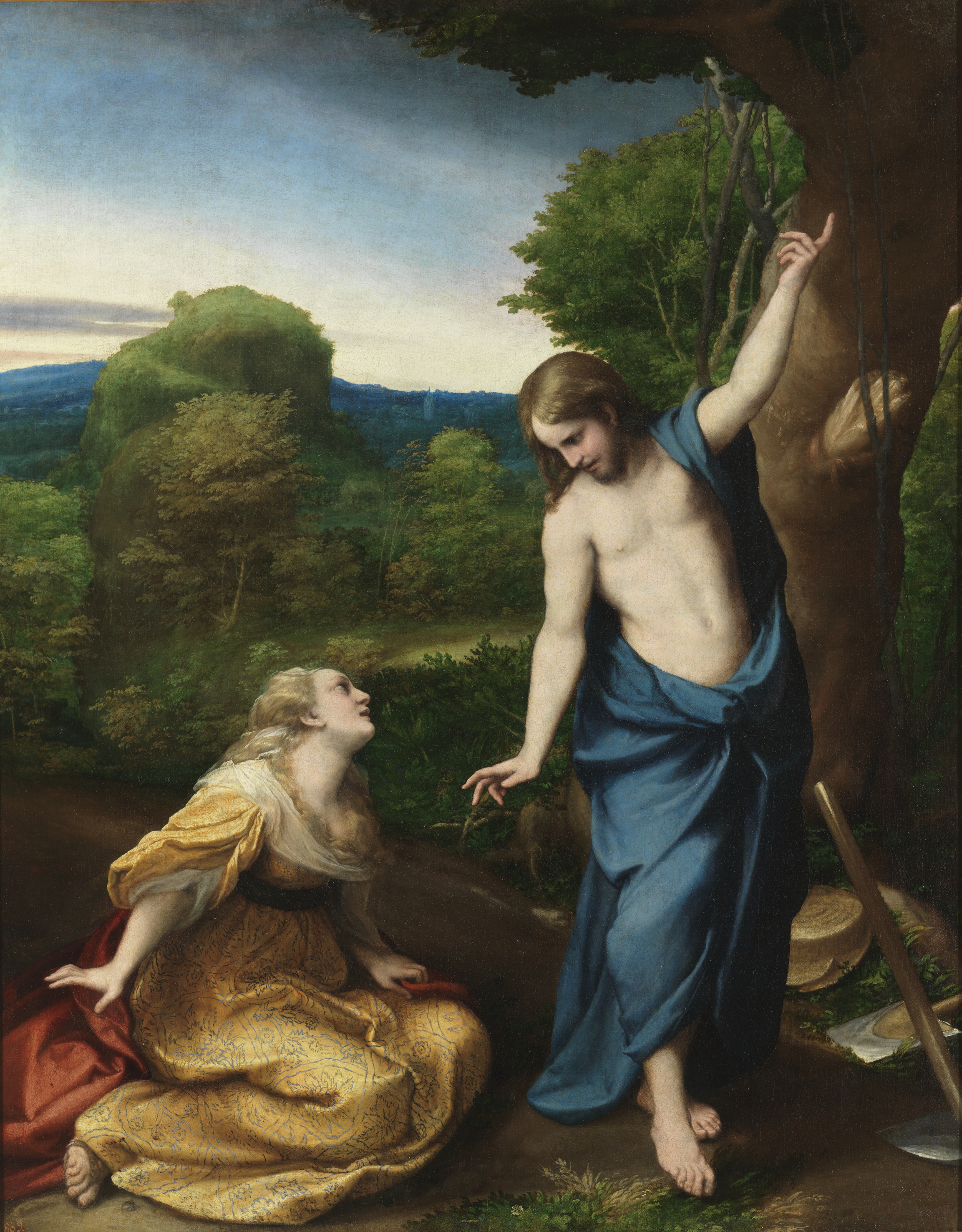 Correggio: Noli Me Tangere, c. 1525, oil on canvas, 130 x 103 cm (51 1/8 x 40 1/2 in.), Museo del Prado, Madrid